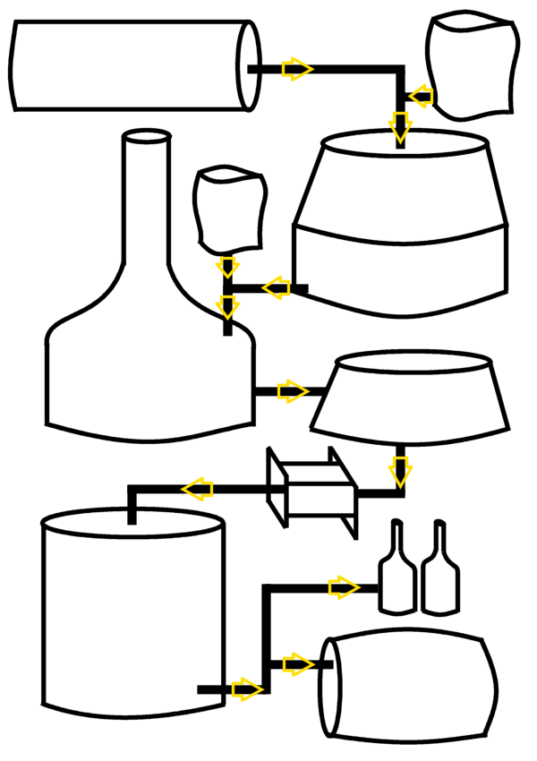 Diagram of Brewing Real ale. (With text)